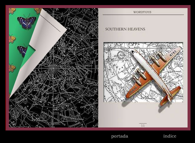 It´s a screeshot of a work published in "Portal de Literatura Electronica Hispanica" de Cervantes Virtual